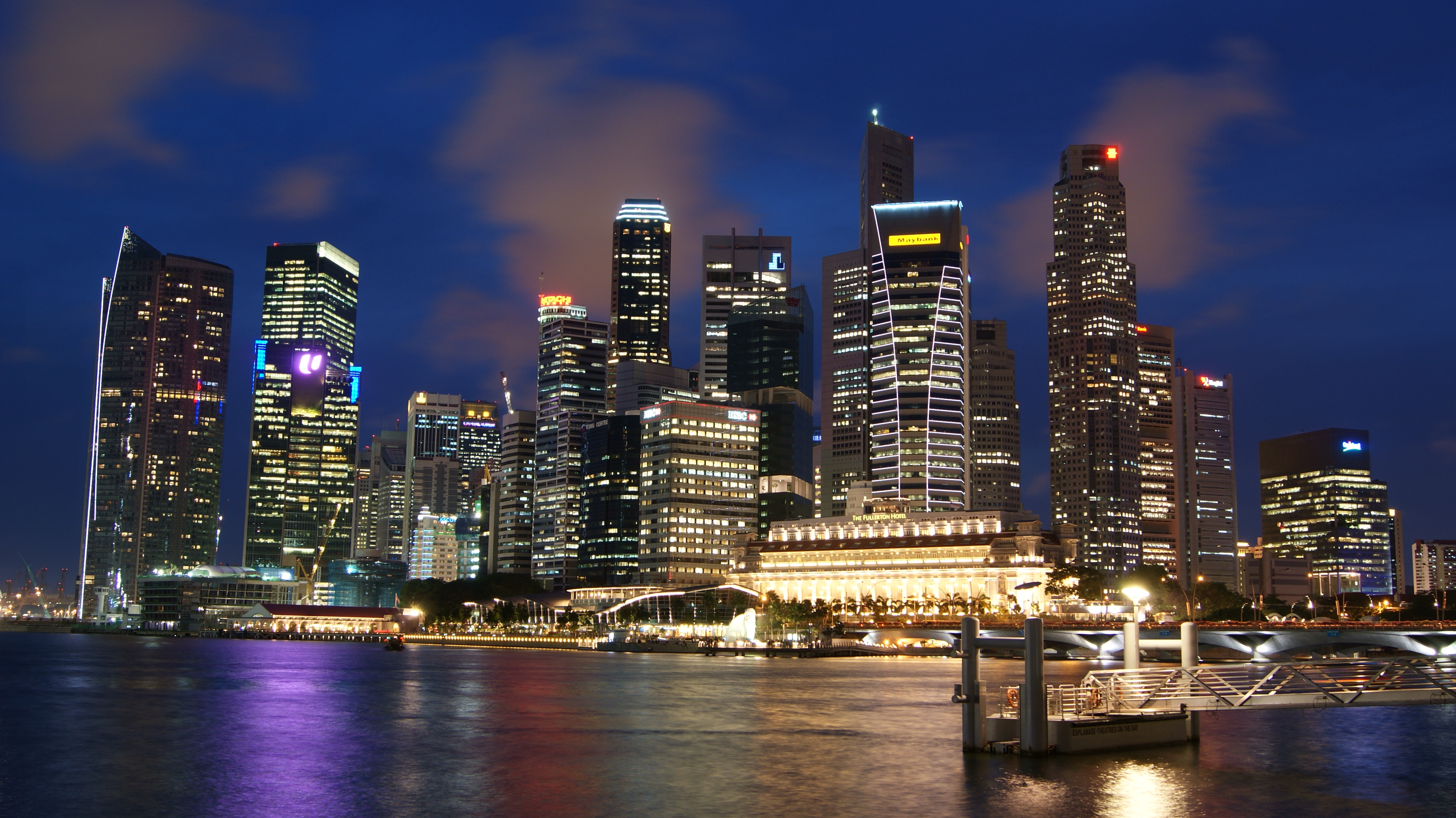 Singapore Skyline with dark blue sky in the background.